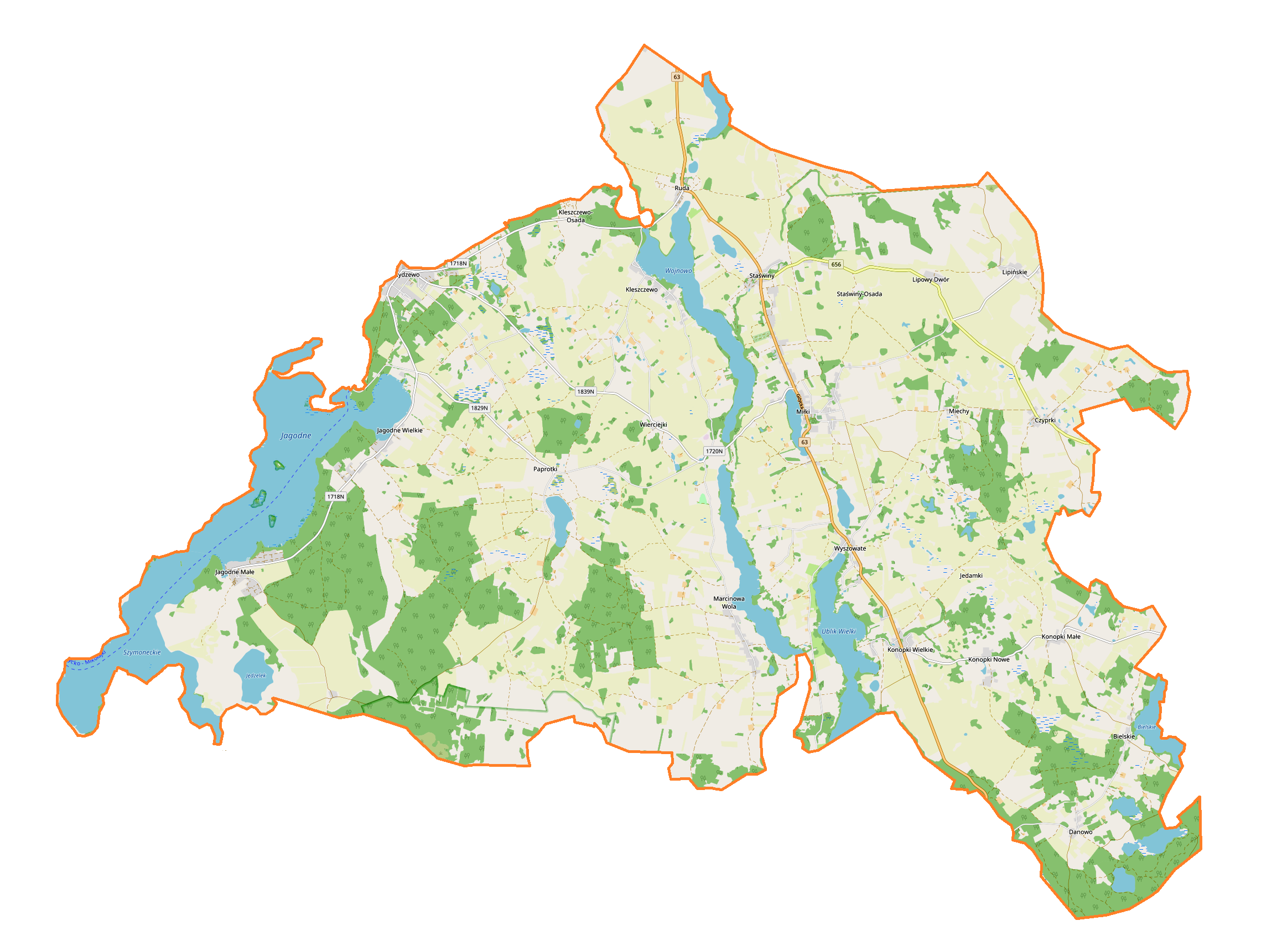 Location map